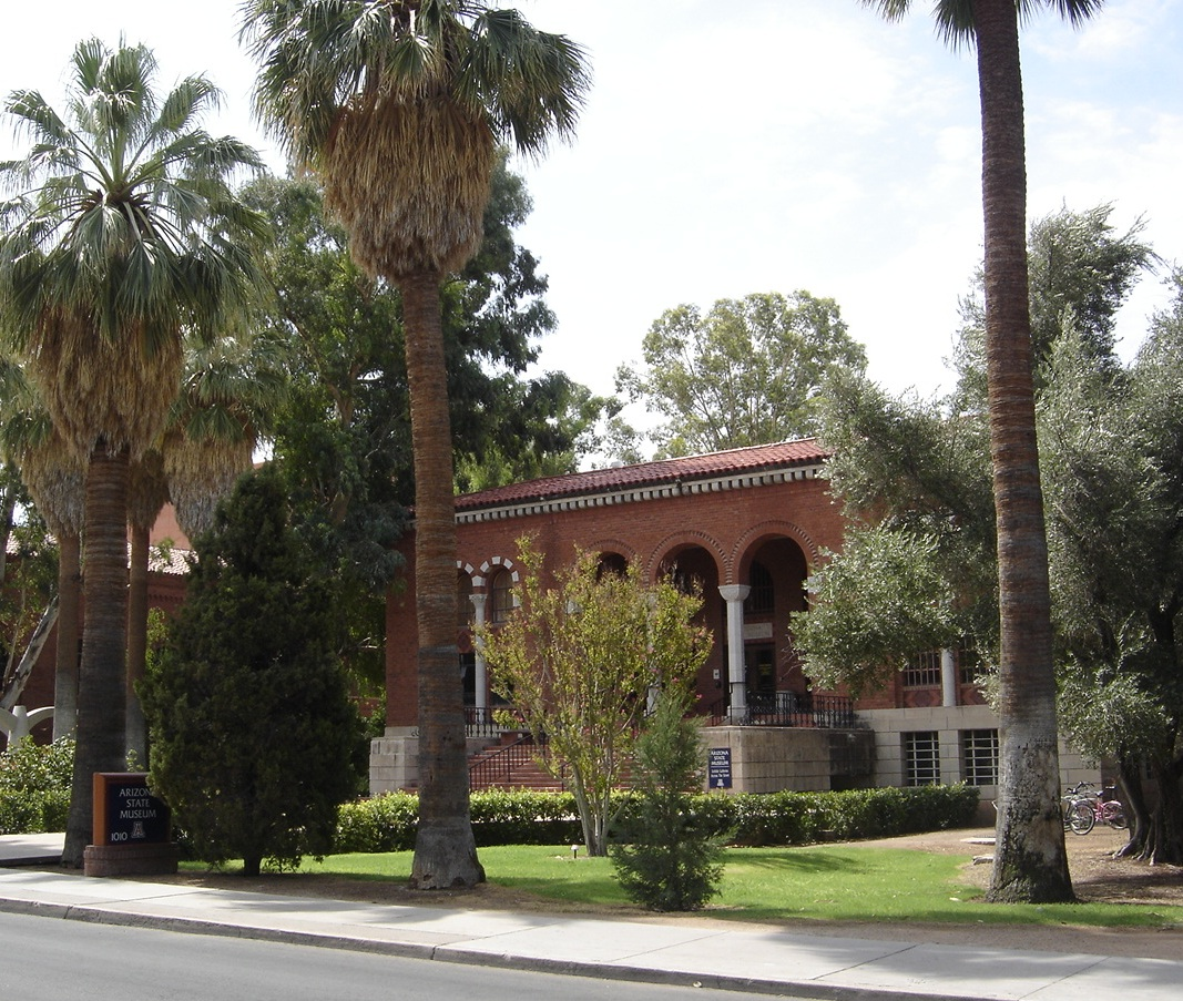 Entrance garden — Arizona State Museum on the University of Arizona campus, Tuscon.